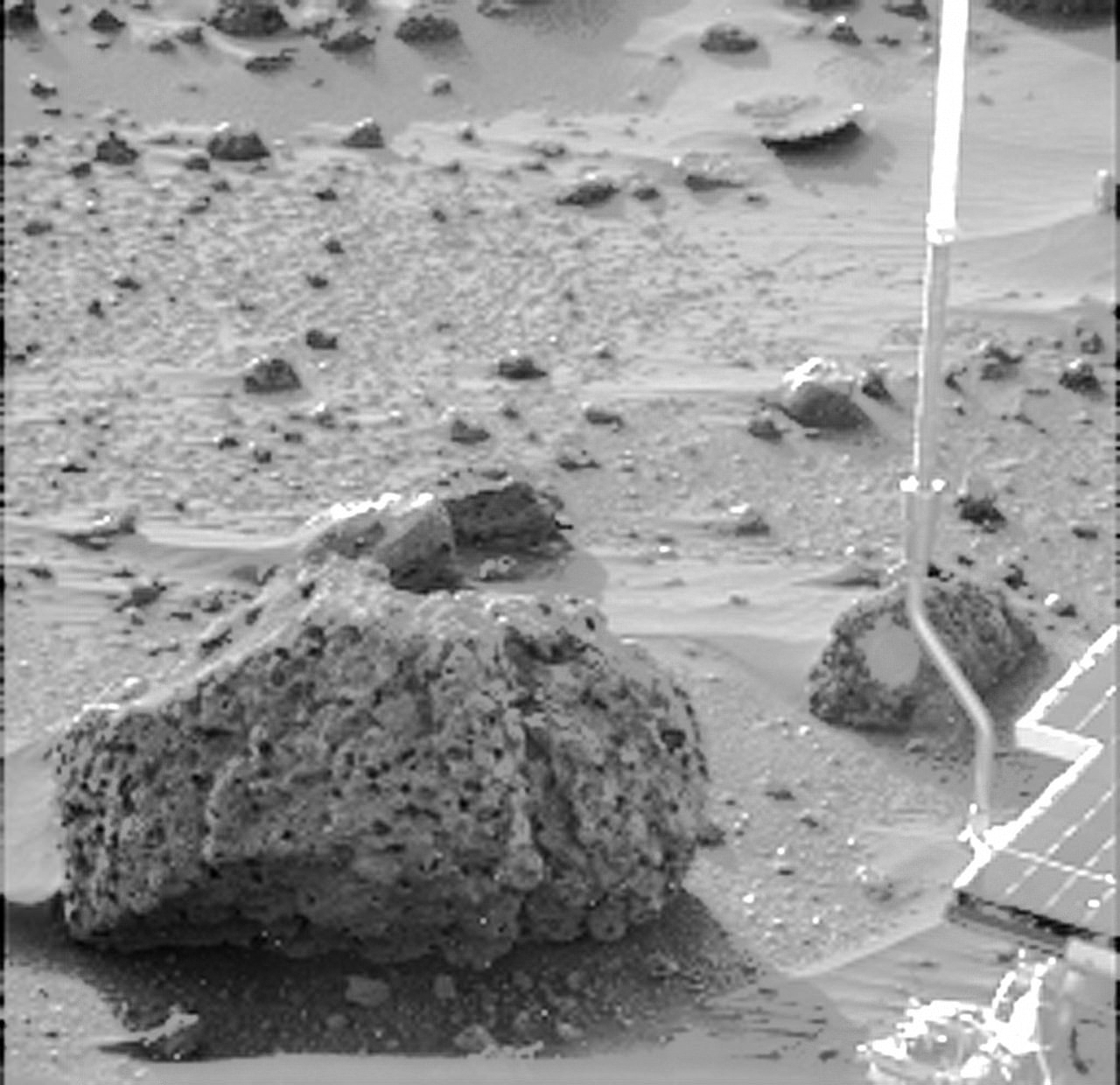 Images March 16, 1998 Super Resolution Anaglyph of Barnacle Bill 'Barnacle Bill' is a small rock immediately west-northwest of NASA's Mars Pathfinder lander and was the first rock visited by the rover Sojourner. 3D glasses are necessary to identify surface detail. Barnacle Bill is a small rock immediately west-northwest of the Mars Pathfinder lander and was the first rock visited by the Sojourner Rover's alpha proton X-ray spectrometer (APXS) instrument. This image and PIA00820 show super resolution techniques applied to the first APXS target rock, which was never imaged with the rover's forward cameras. Super resolution was applied to help to address questions about the texture of this rock and what it might tell us about its mode of origin. These views of Barnacle Bill were produced by combining the "Insurance Pan" frames taken while the IMP camera was still in its stowed position on sol2. The composite color frame consists of 5 frames from the right eye, taken with different color filters that were enlarged by 500% and then co-added using Adobe Photoshop to produce, in effect, a super-resolution panchromatic frame that is sharper than an individual frame would be. The anaglyph view of Barnacle Bill was produced by combining the left (single red-filtered image) with the right eye frames by assigning the left eye view to the red color plane and the right eye view to the green and blue color planes (cyan), to produce a stereo anaglyph mosaic. This mosaic can be viewed in 3-D on your computer monitor or in color print form by wearing red-blue 3-D glasses. Mars Pathfinder is the second in NASA's Discovery program of low-cost spacecraft with highly focused science goals. The Jet Propulsion Laboratory, Pasadena, CA, developed and manages the Mars Pathfinder mission for NASA's Office of Space Science, Washington, D.C. JPL is a division of the California Institute of Technology (Caltech). Click below to see the left and right views individually.